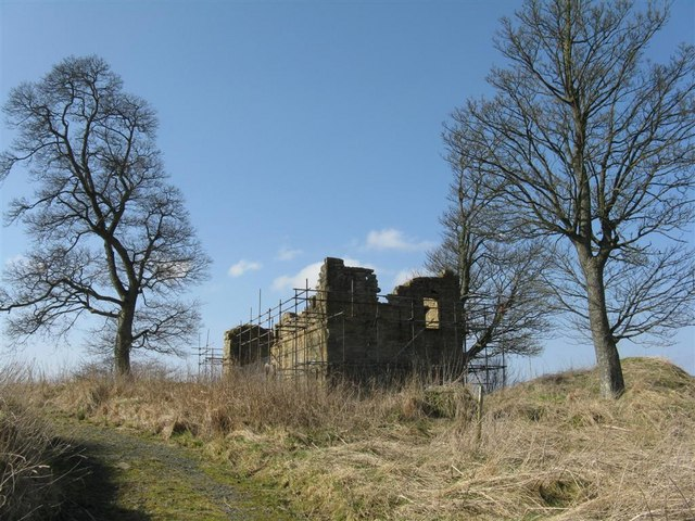 Uttershill Castle A late 16 C medieval castle, now dilapidated. The first known reference is dated 1641. For a detailed account see:- , which is a 30 page report of the structure 'written in advance of a proposed restoration' - clearly not much has happened in the intervening 10 years.